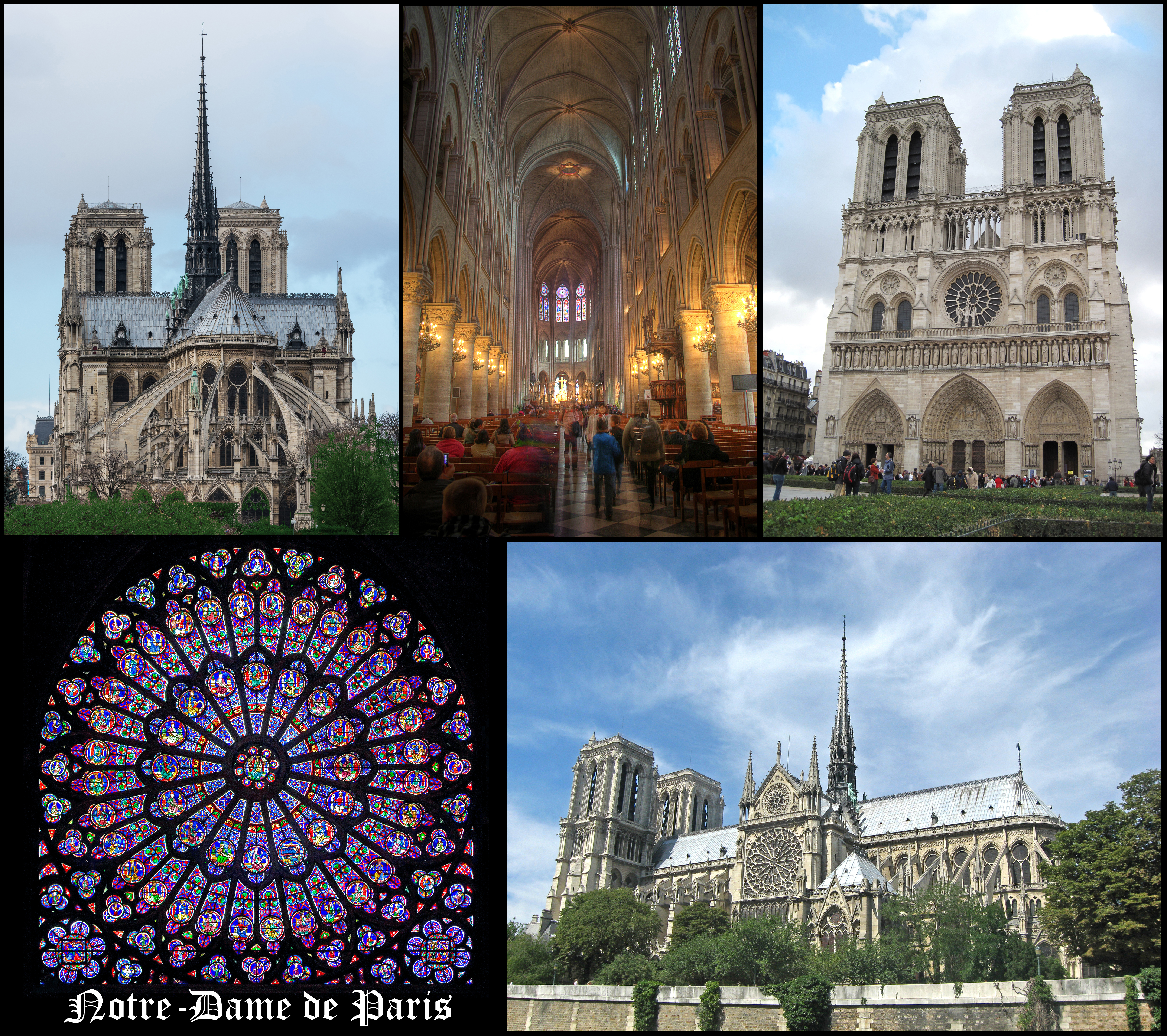 Cathédrale Notre-Dame de Paris, Gothic architecture, Paris, France